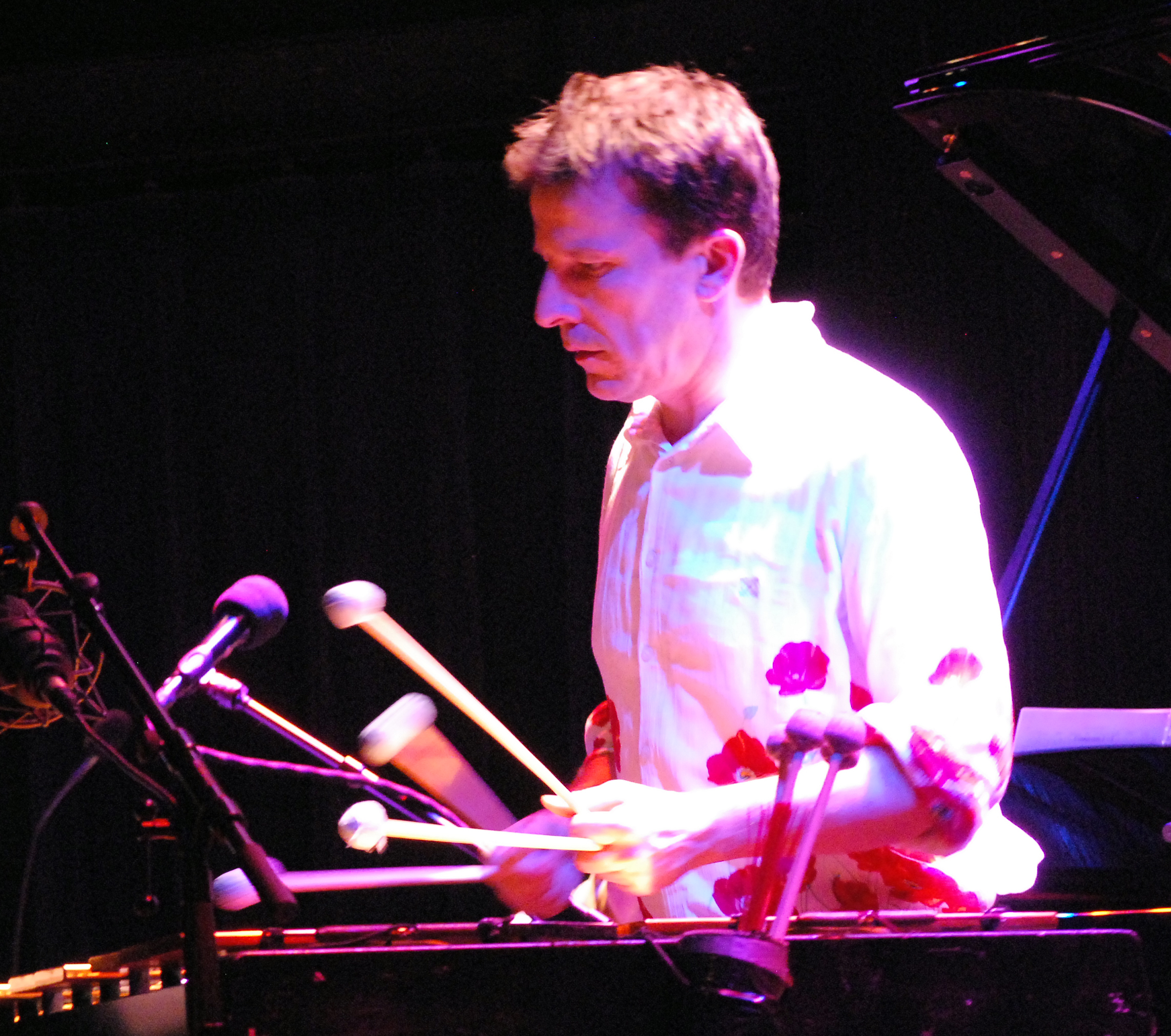 Franck Tortiller, Innsbruck 2010, Concert with Christian Muthspiel Yodel Group